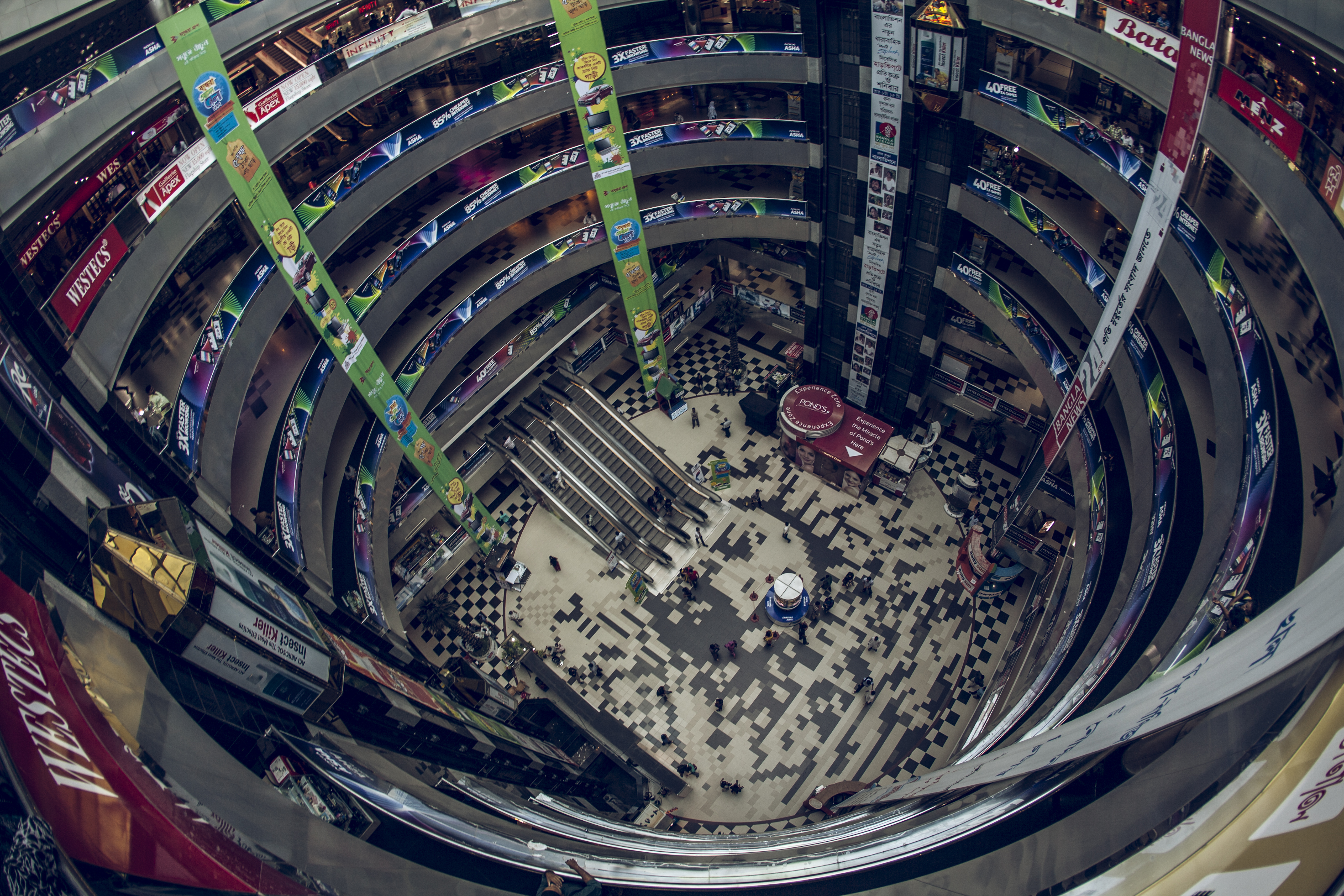 Dhaka, Bangladesh (17 Oct to 07 Nov 2012)